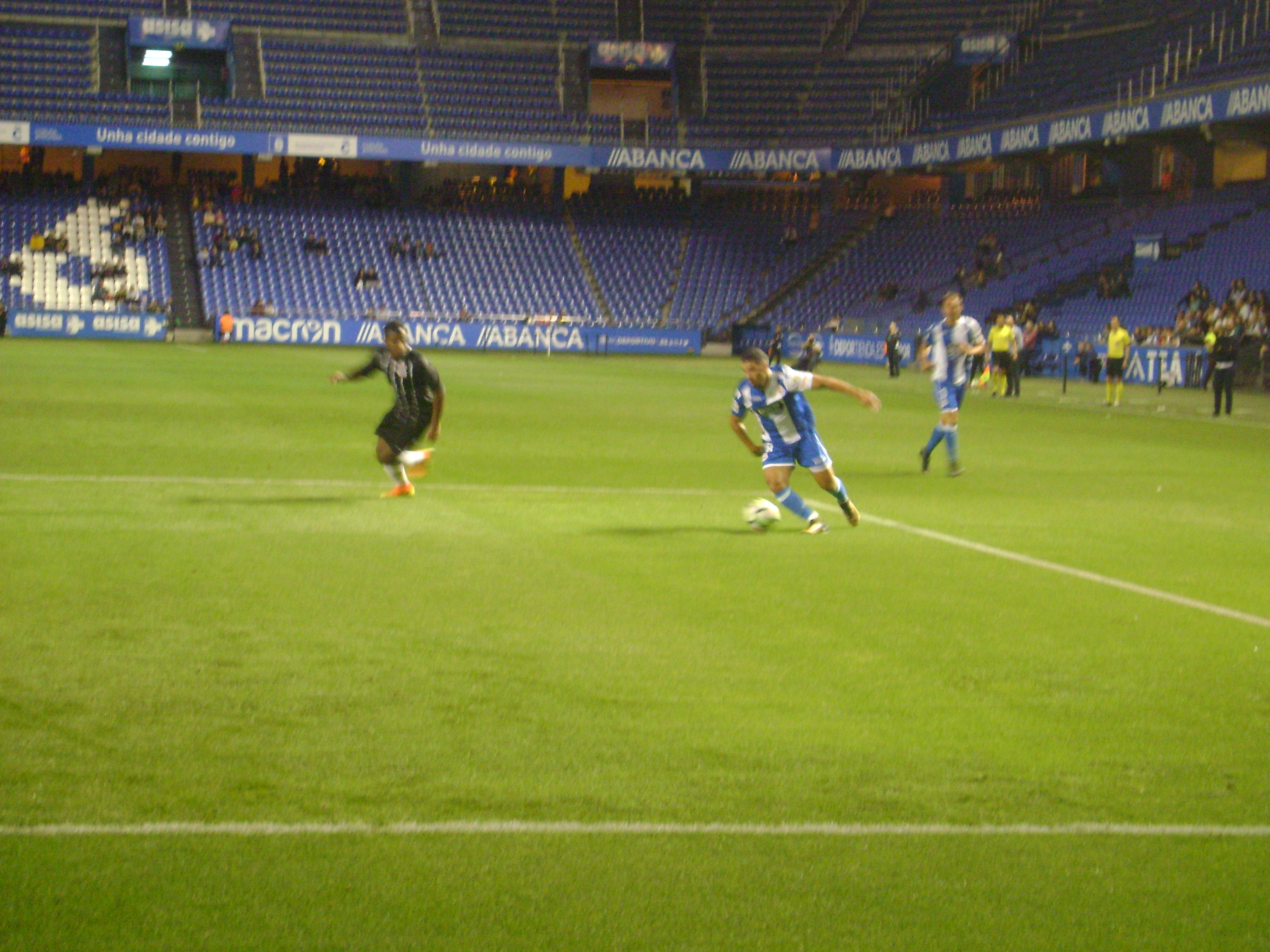 Deportivo La Coruña vs. Corinthians